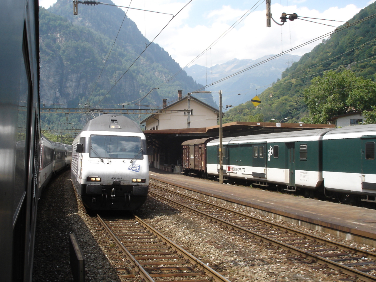 SBB CFF FFS Re 460 101-9 at Lavorgo.